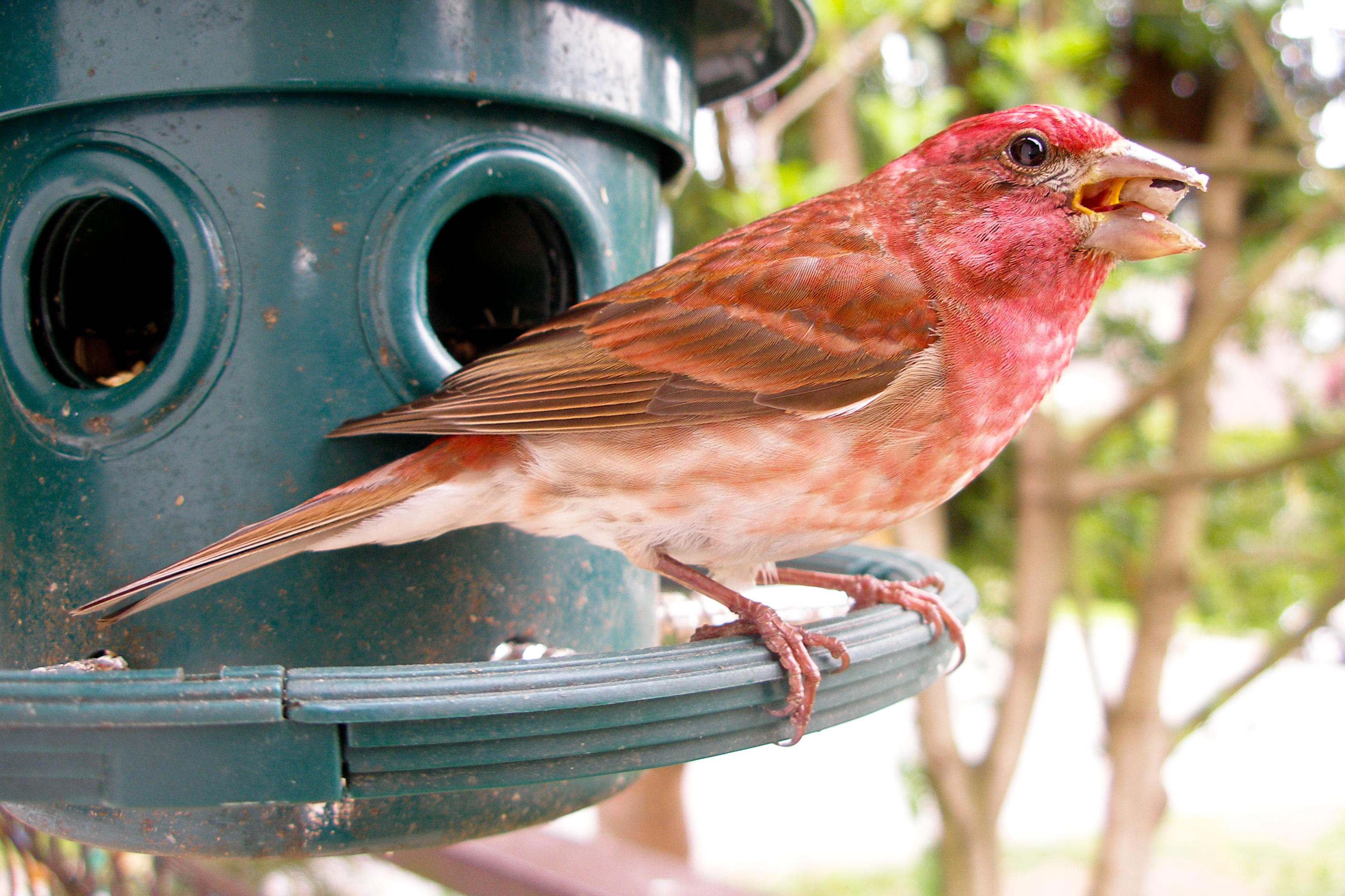 Carpodacus purpureus male on feeder, Vancouver, Canada 49°15'14"N 123°11'46"W.